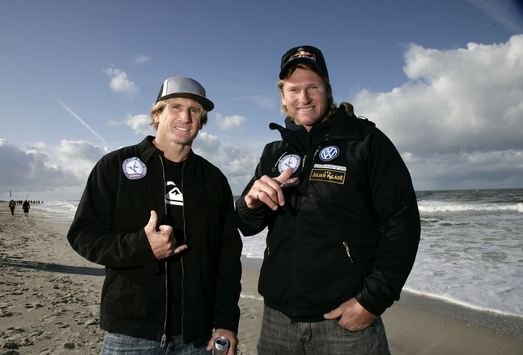 R. Naish & B. Dunkerbeck @ Windsurf World Cup Sylt 2009